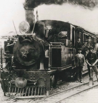 Train arriving to Quito